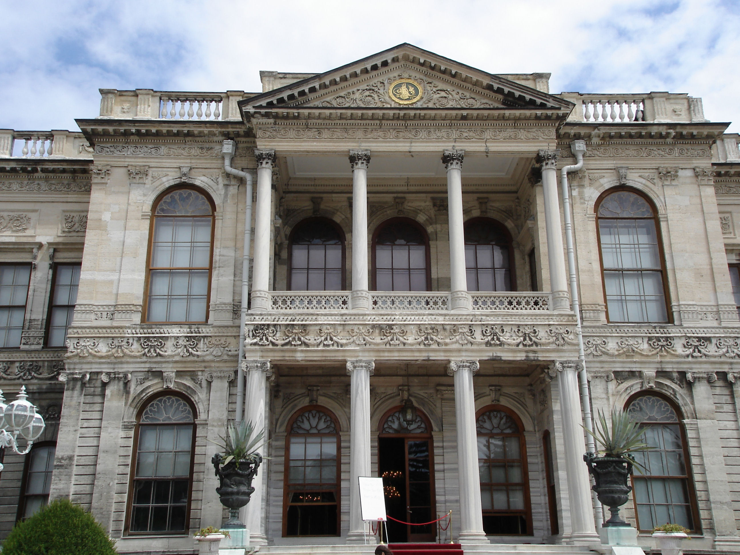 Entrance of the Palace of Dolmabahce, Istanbul.